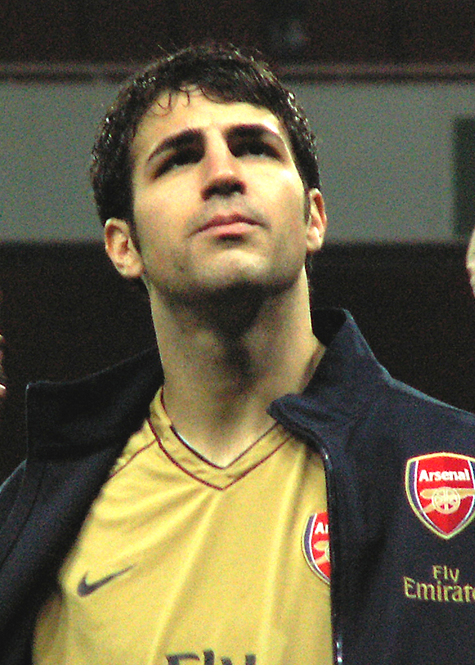 Cesc Fabregas Warm-Up 30-01-2008, Emirates Stadium, London, UK.